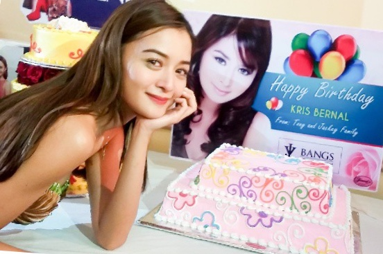 Kris Bernal birthday.